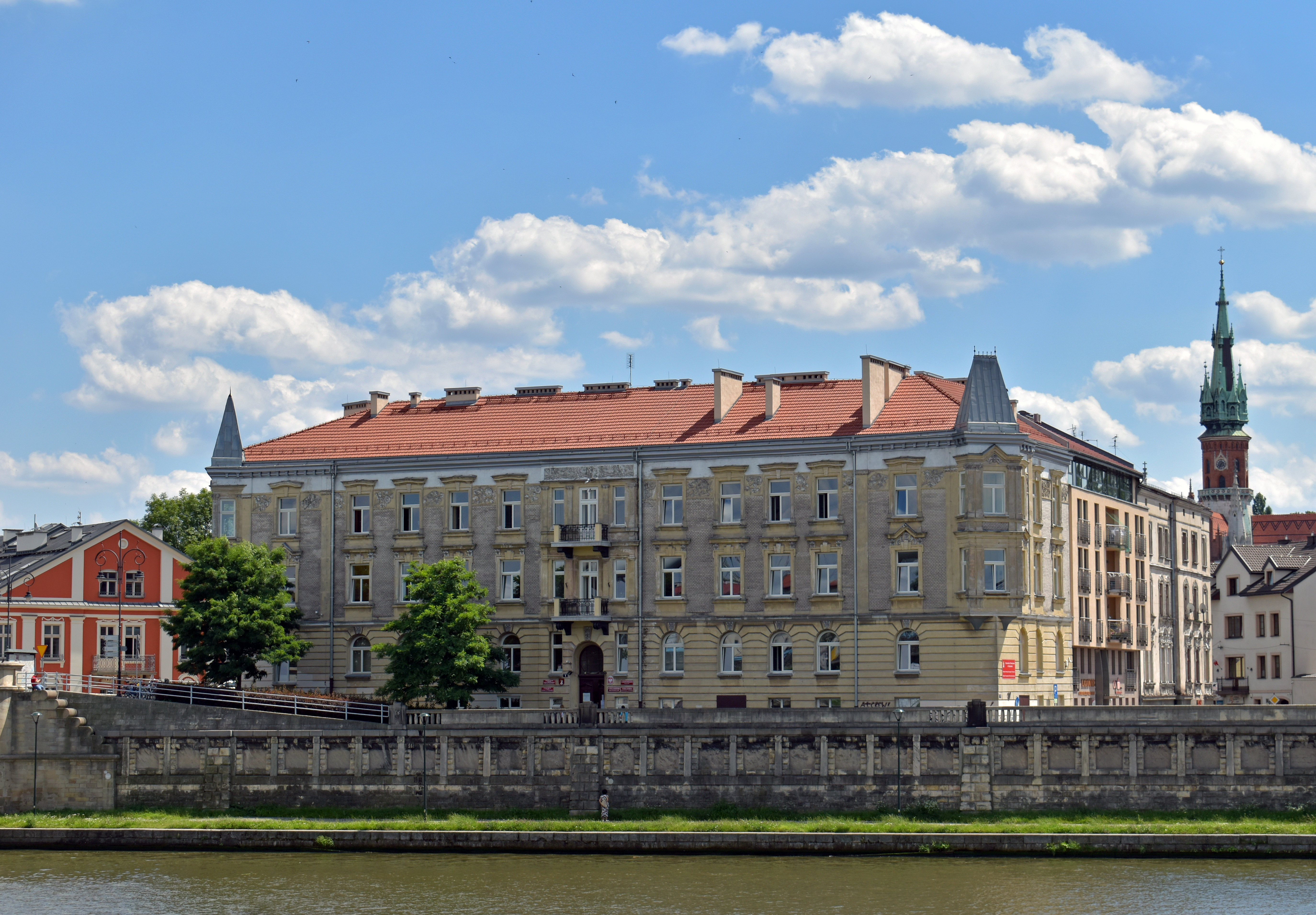 Aleksandrowicz tenement, 9 Brodzinskiego street, Podgorze, Krakow, Poland